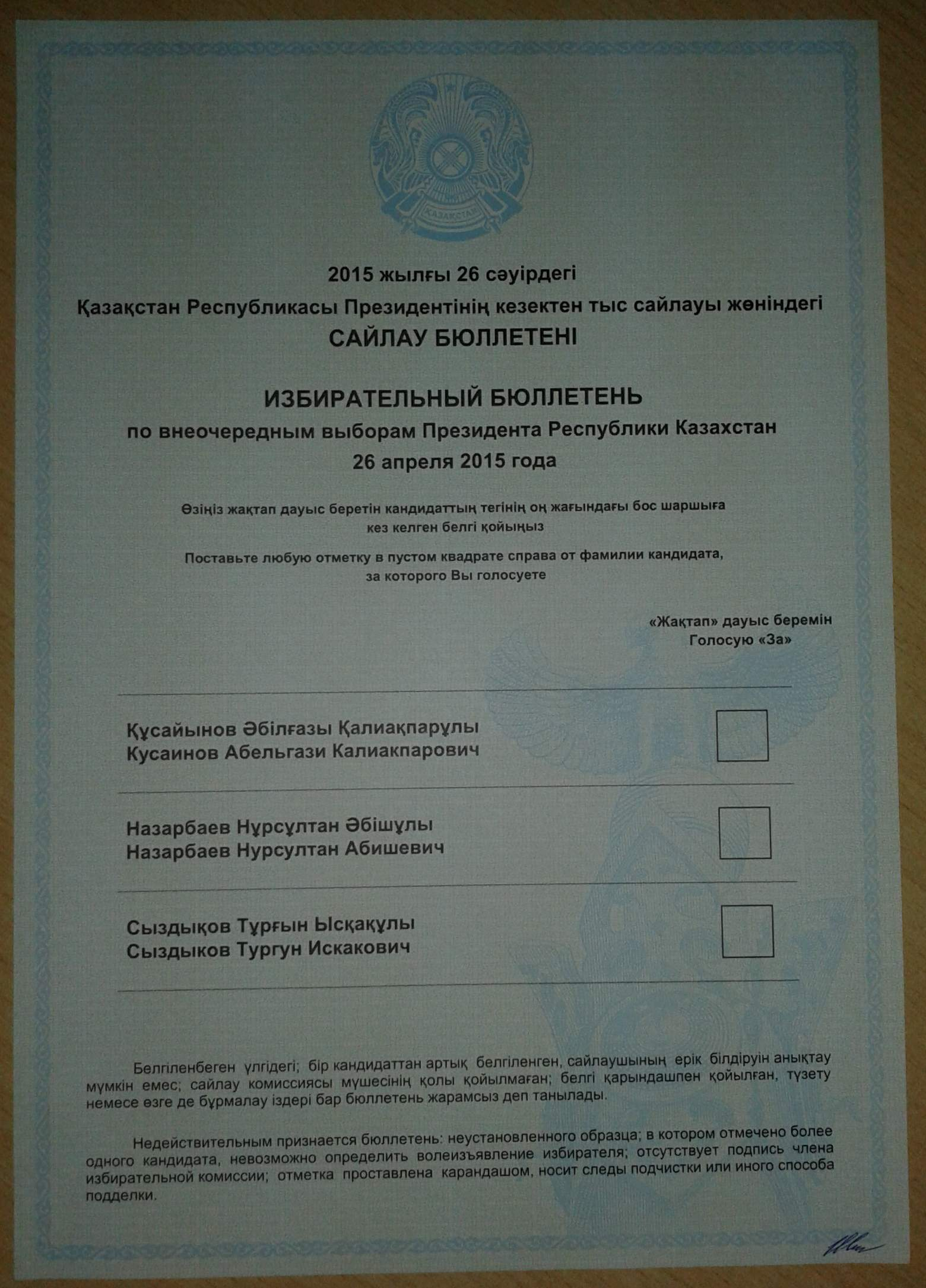 The voting ballot for 2015 Kazakhstan Presidential Election